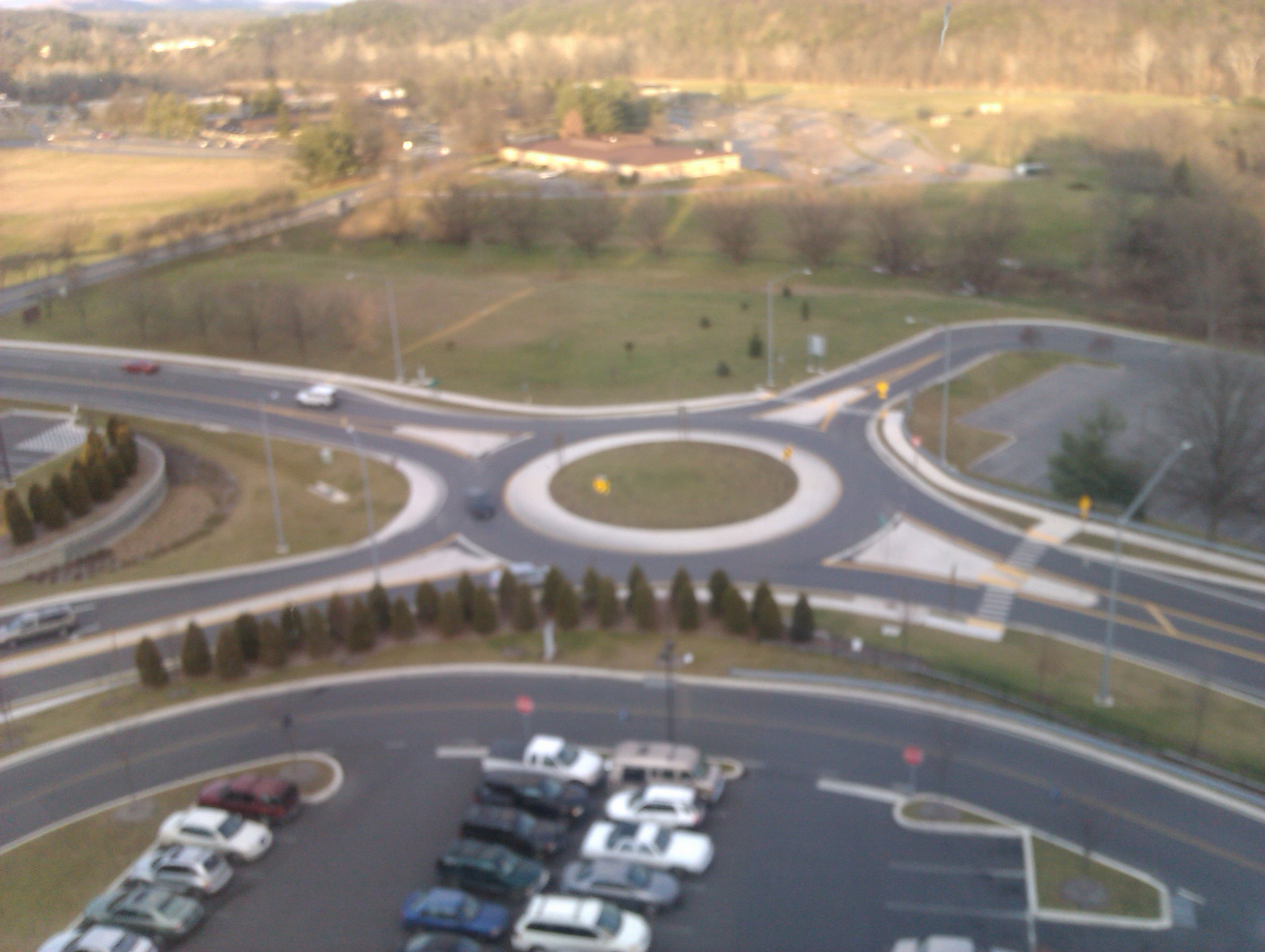 A picture of the northern roundabout on taken from the 7th floor of the WMHS hospital in Cumberland, MD. Allegany College of Maryland is visible in the background.